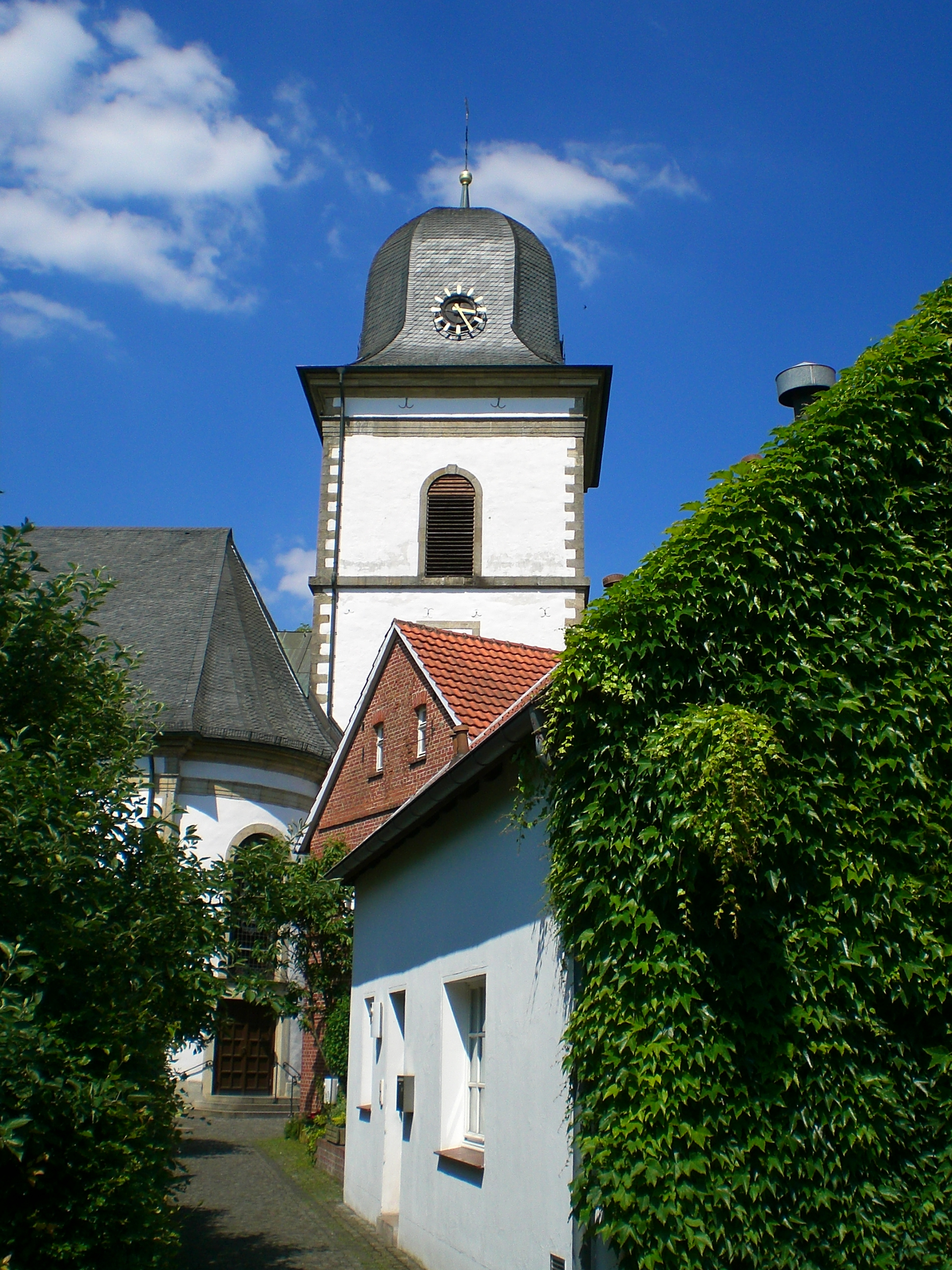 View to the tower of the St. Anna church of Verl, Germany.